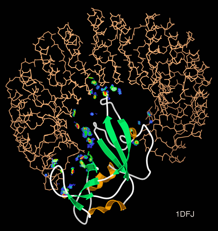 Ribonuclease-inhibitor protein grabbing and surrounding the ribonuclease A enzyme (from PDB file 1DFJ). The enzyme is shown as a ribbon diagram, the inhibitor as main chain in gold, and the atomic interactions as patches of all-atom contact dots.